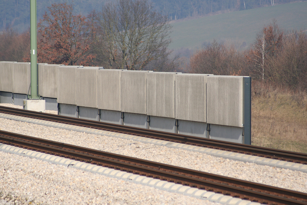 Concrete noise barriers at the Nuremberg-Ingolstadt high-speed railway line